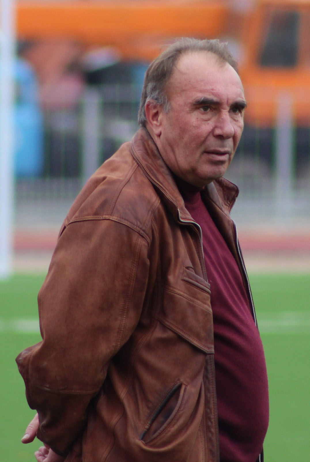 Vladimir Kozenko